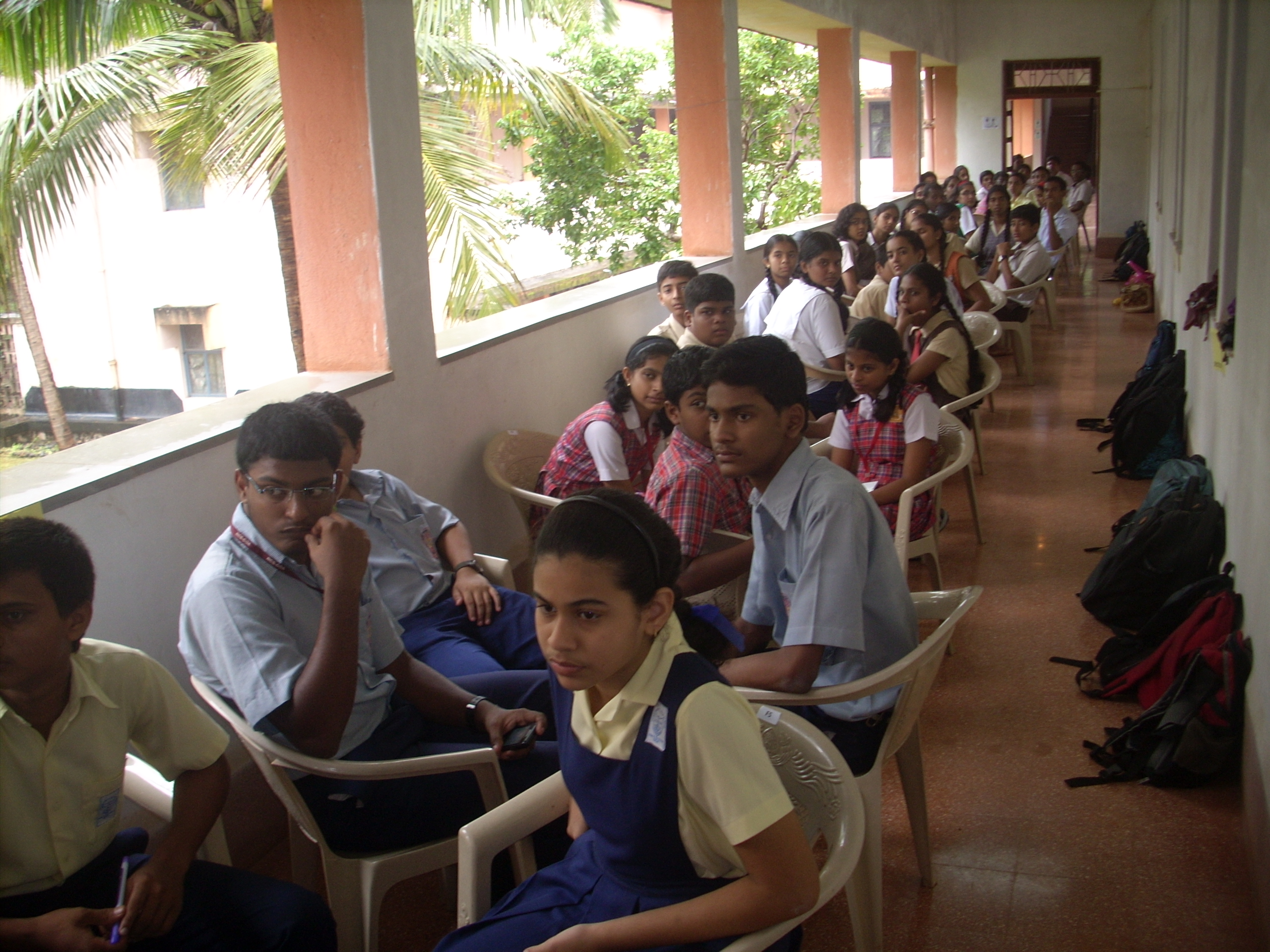 Xavier Centre of Historical Research, Alto Porvorim, Goa, India. A history quiz on local themes conducted for students from Goa. 2011.